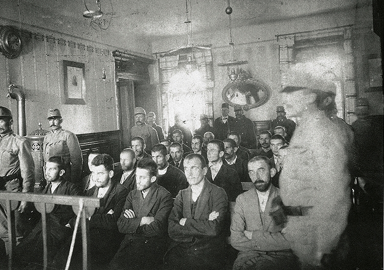 Sarajevo trial (1914). Members of the Young Bosnia organization accused of the assassination of Archduke Ferdinand. The photograph circulated in the media during the trials. Front row, from left: 1. Trifko Grabež, 2. Nedeljko Čabrinović, 3. Gavrilo Princip, 4. Danilo Ilić, 5. Miško Jovanović.